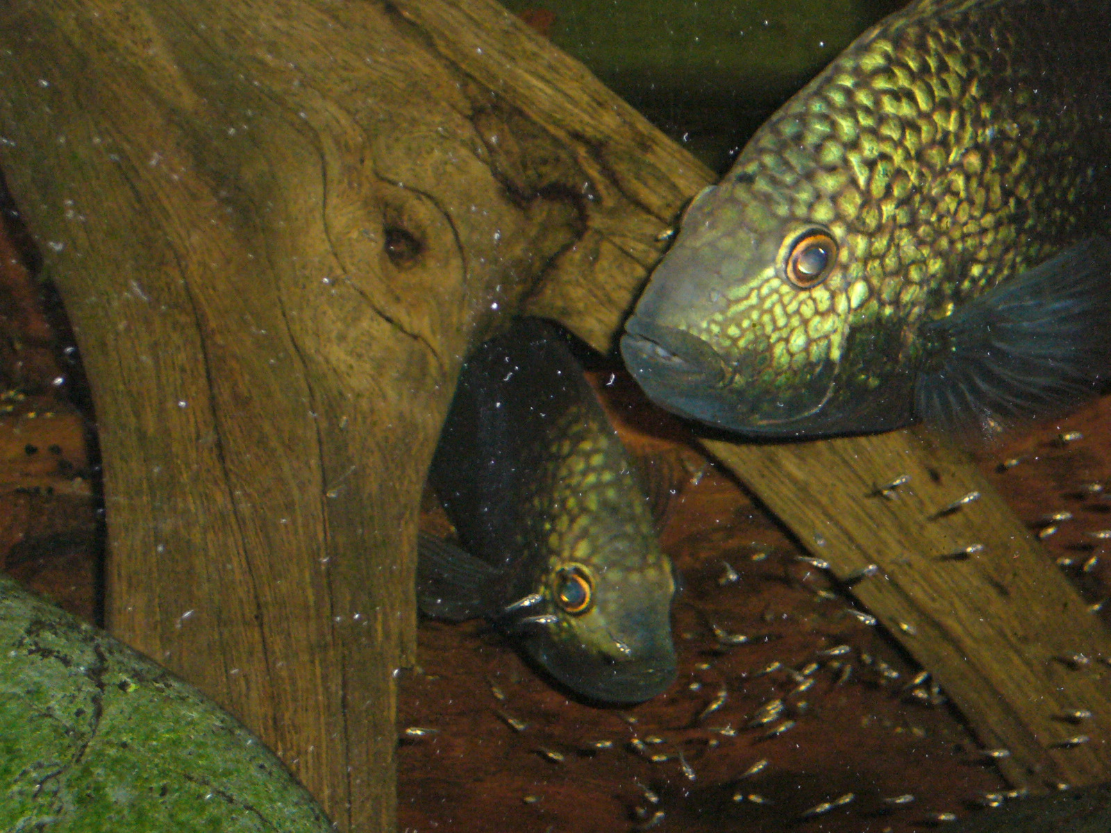 couple de carpinte (Herichthys carpintis)